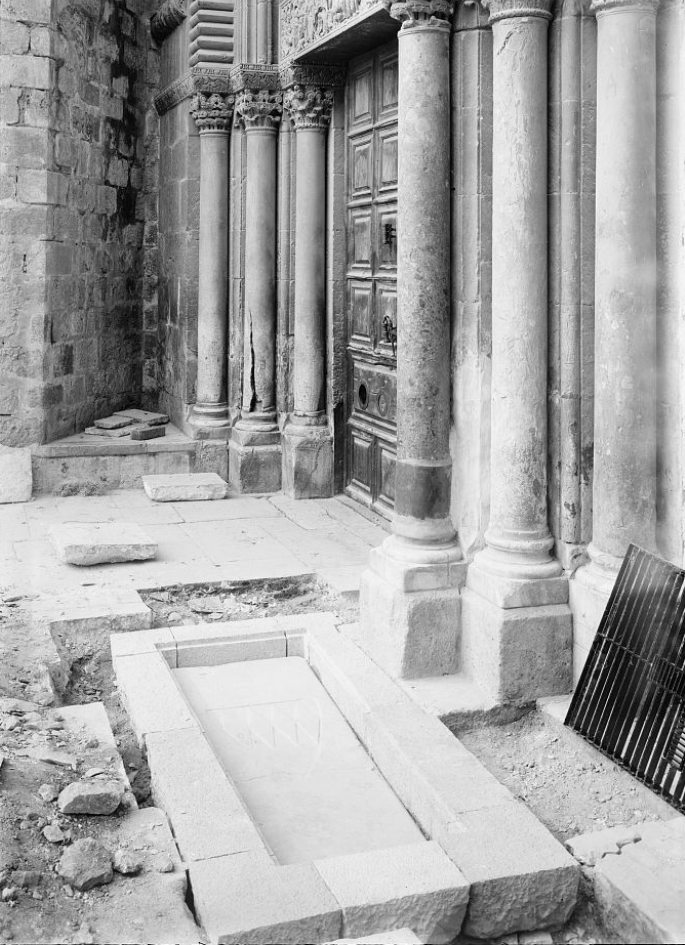 Ledger stone of crusader Philip d'Aubigny (c.a. 1166 – c.a. 1236) at the Church of the Holy Sepulchre in Jerusalem, which was moved and protected with a grille in 1925. (Source:T. Bolen and T. Powers, 2009 and Raymond Cohen, Saving the Holy Sepulchre, 2008, p. 25). He was an Anglo-Norman knight, one of 5 sons of Ralph d'Aubigny and Sybil Valoignes whose ancestral home was Saint Aubin-d'Aubigné in Brittany. In England he was lord of the manor of Chewton Mendip, South Petherton, Bampton, Waltham and Ingleby and Keeper of the Channel Islands. The ledger stone is inscribed in Latin Hic jacet Philippus de Aubingni cuius anima requiescat in pace Amen ("Here lies Philip d'Aubigny. May his soul rest in peace. Amen".) and displays his arms: Gules, four fusils conjoined in fess argent. His family was later known in England as "Daubeney". Text from The Status Quo document regarding the holy places (as published by the British) explains how the marker survived the centuries in such good condition: “Thanks to the fact that for a long period it was protected by a stone divan built over it for the use of the Moslem guards, the tombstone is in a tolerably good state of preservation.” In 1925, during the British Mandate over Palestine, an excavation of the grave for purposes of restoration uncovered Sir Philip’s bones as well as tablets inscribed in Latin describing his family tree. Based on these explorations, Sir Ronald Storrs, the military governor of Jerusalem, authenticated the tomb and Philip’s lineage in a 1925 article published in The Times of London. The restoration of the grave was carried out by the British Pro-Jerusalem Society headed by Storrs. At that time the tombstone was re-set slightly below the level of the courtyard pavement but left visible through a protective metal grating. Today the slab lies in exactly the same spot, but hidden from view by a well-worn wooden hatch".